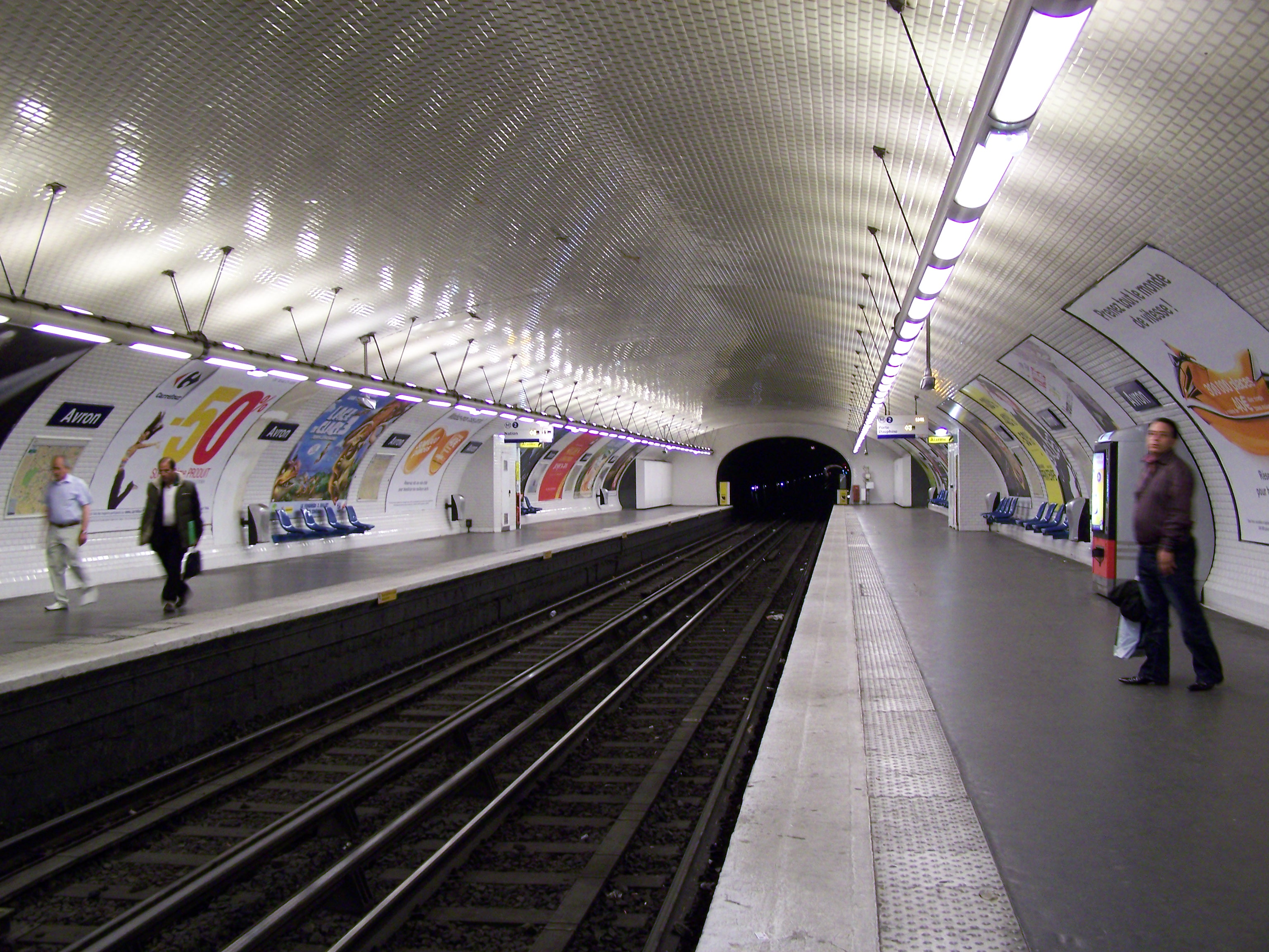 Station Avron of the Paris Métro